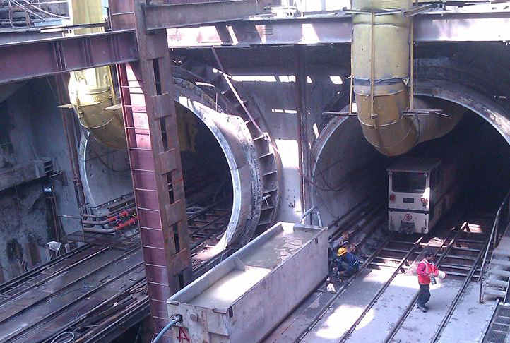 Sealdah metro station under construction